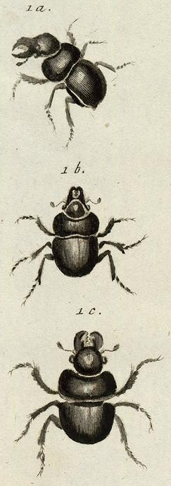 Lethrus cephalotes